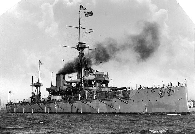 Photograph of British battleship HMS Dreadnought in harbor, with flags flying from both masts and from the sternpost, circa 1906-07. Removed caption read: Photo # NH 63367 HMS Dreadnought (British battleship, 1906).